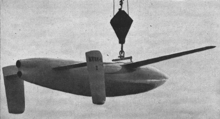 A U.S. Navy KU3N-2 Gorgon IIIC missile in 1947.